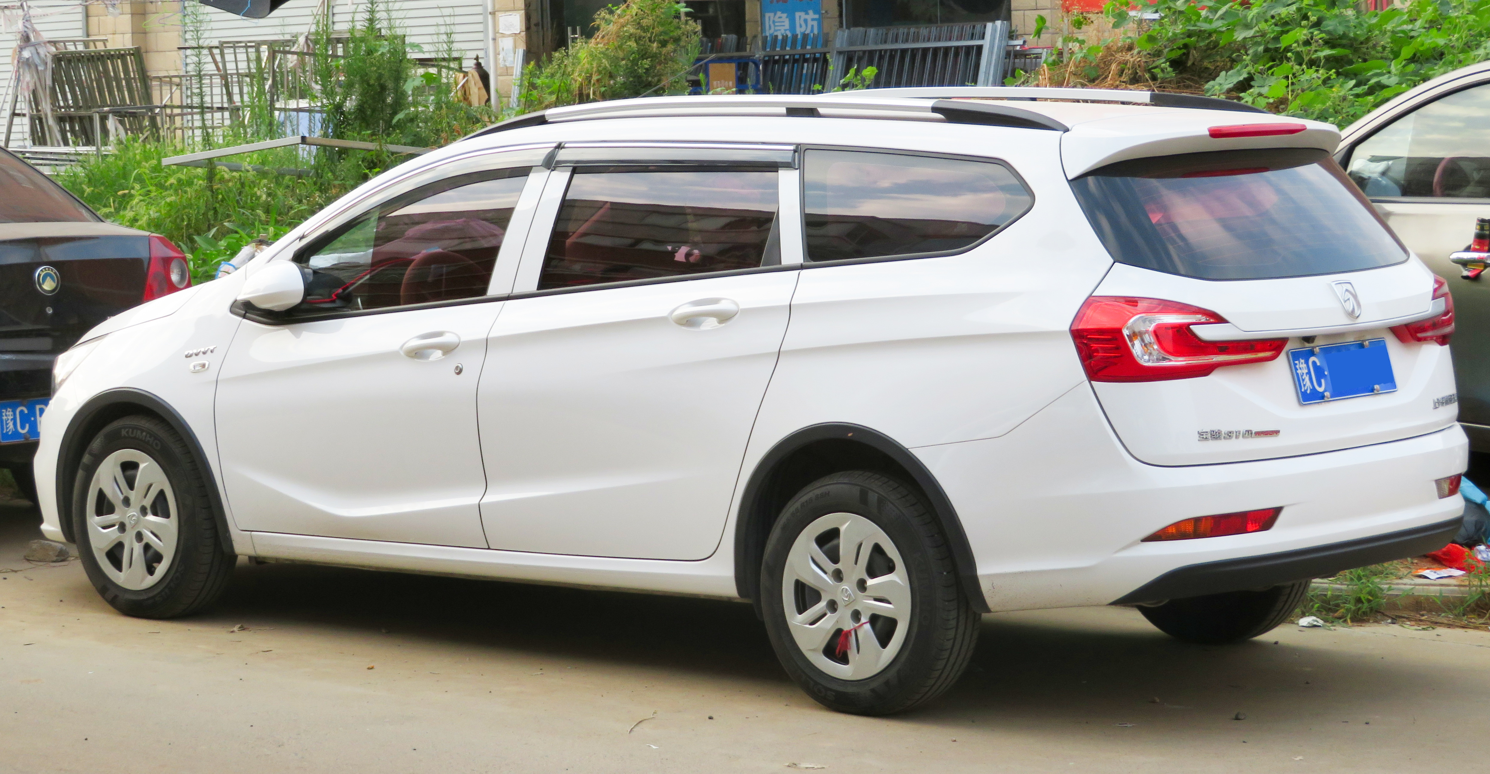 A 2018 Baojun 310W 1.5L photographed in Luoyang, Henan province, China